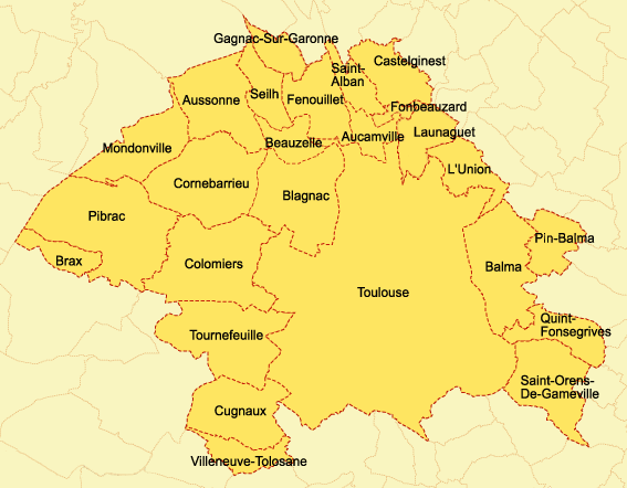 Map of the Urban Agglomeration of Toulouse, created by myself.